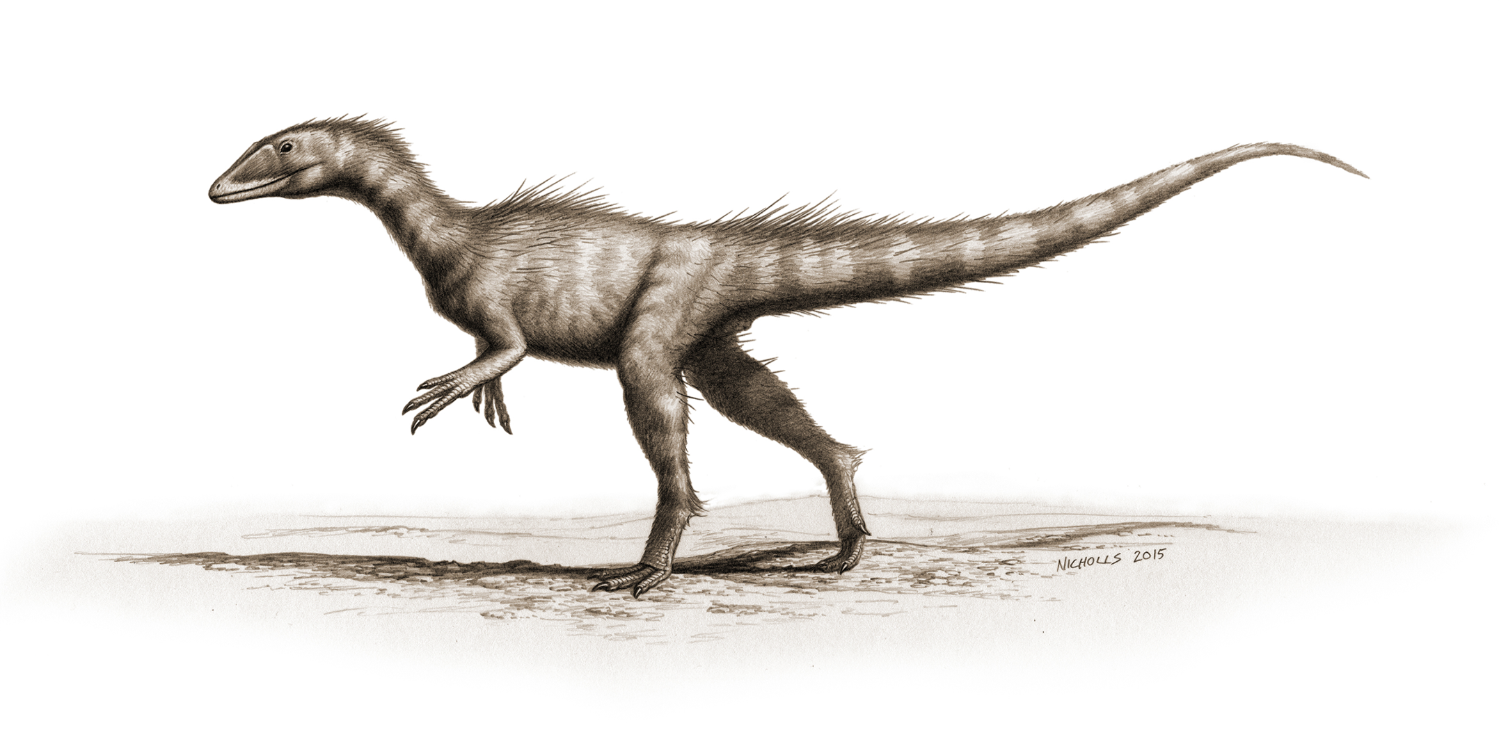 Dracoraptor hanigani restored as a shoreline dwelling predator and scavenger. Artwork by Bob Nichols .